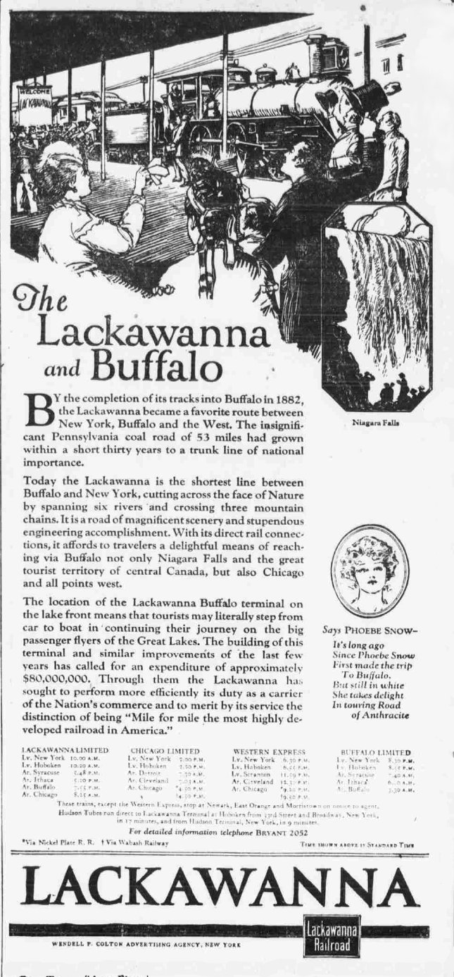 Ad for Lackawanna rail travel to Buffalo and elsewhere. From the New York Evening World. Cropped and converted to greyscale by the uploader using GIMP. Some Artefacts along the right of the image.